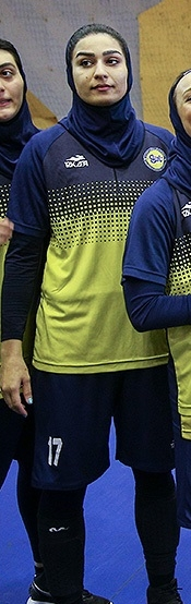 Iranian women basketball league Final - Masoumeh-Esmaeilzadeh-Soudjani